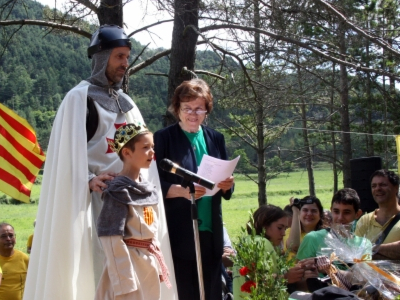 Reading of Verdaguer's poem at the Pi de les Tres Branques gathering, July 2014